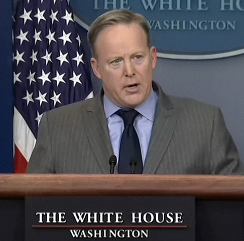 Sean Spicer at the White House, 2017.